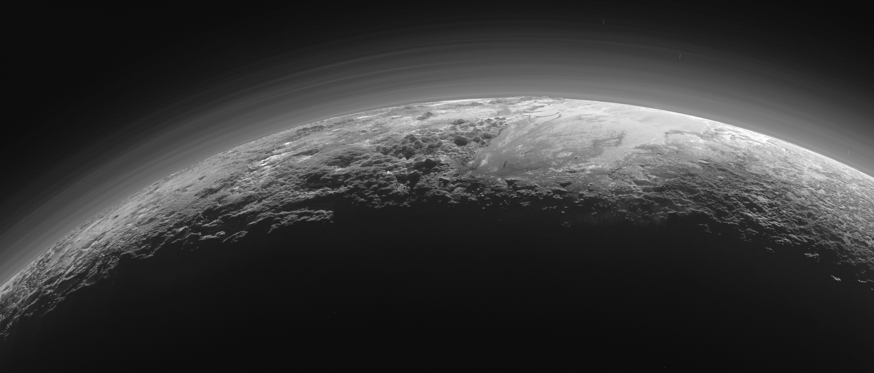 Just 15 minutes after its closest approach to Pluto on July 14, 2015, NASA's New Horizons spacecraft looked back toward the sun and captured this near-sunset view of the rugged, icy mountains and flat ice plains extending to Pluto's horizon. The smooth expanse of the informally named icy plain Sputnik Planum (right) is flanked to the west (left) by rugged mountains up to 11,000 feet (3,500 meters) high, including the informally named Norgay Montes in the foreground and Hillary Montes on the skyline. To the right, east of Sputnik, rougher terrain is cut by apparent glaciers. The backlighting highlights more than a dozen layers of haze in Pluto’s tenuous but distended atmosphere. The image was taken from a distance of 11,000 miles (18,000 kilometers) to Pluto; the scene is 780 miles (1,250 kilometers) wide.